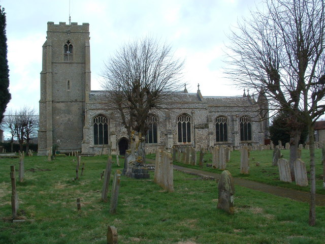 The Church of St Peter in Brandon, Suffolk, England. The medieval church is a Grade I listed building.